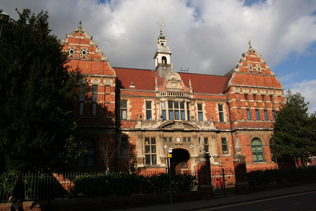 City School, Monks Road. Originally the City School on Monks Road, by George Sedger 1885-6 in the Dutch Reaniassance style. Now part of Lincoln College.